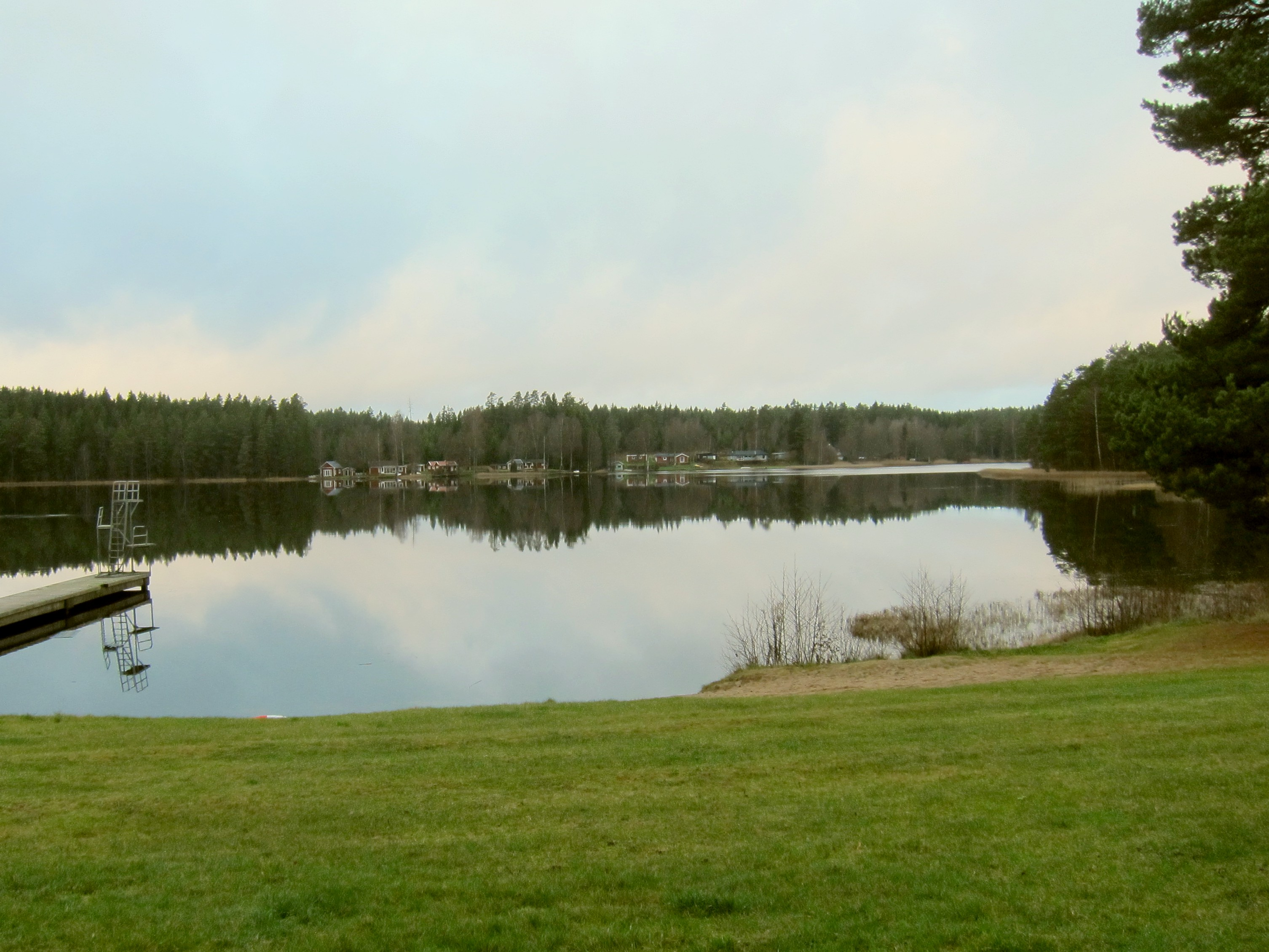 Sörsjön (Sandseryds socken, Småland)